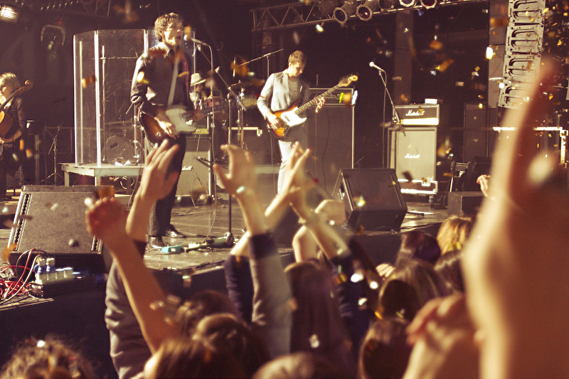 bap_3_YesYes